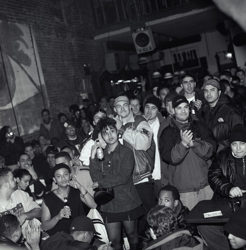 Nuyorican Poets Cafe NYC 1998